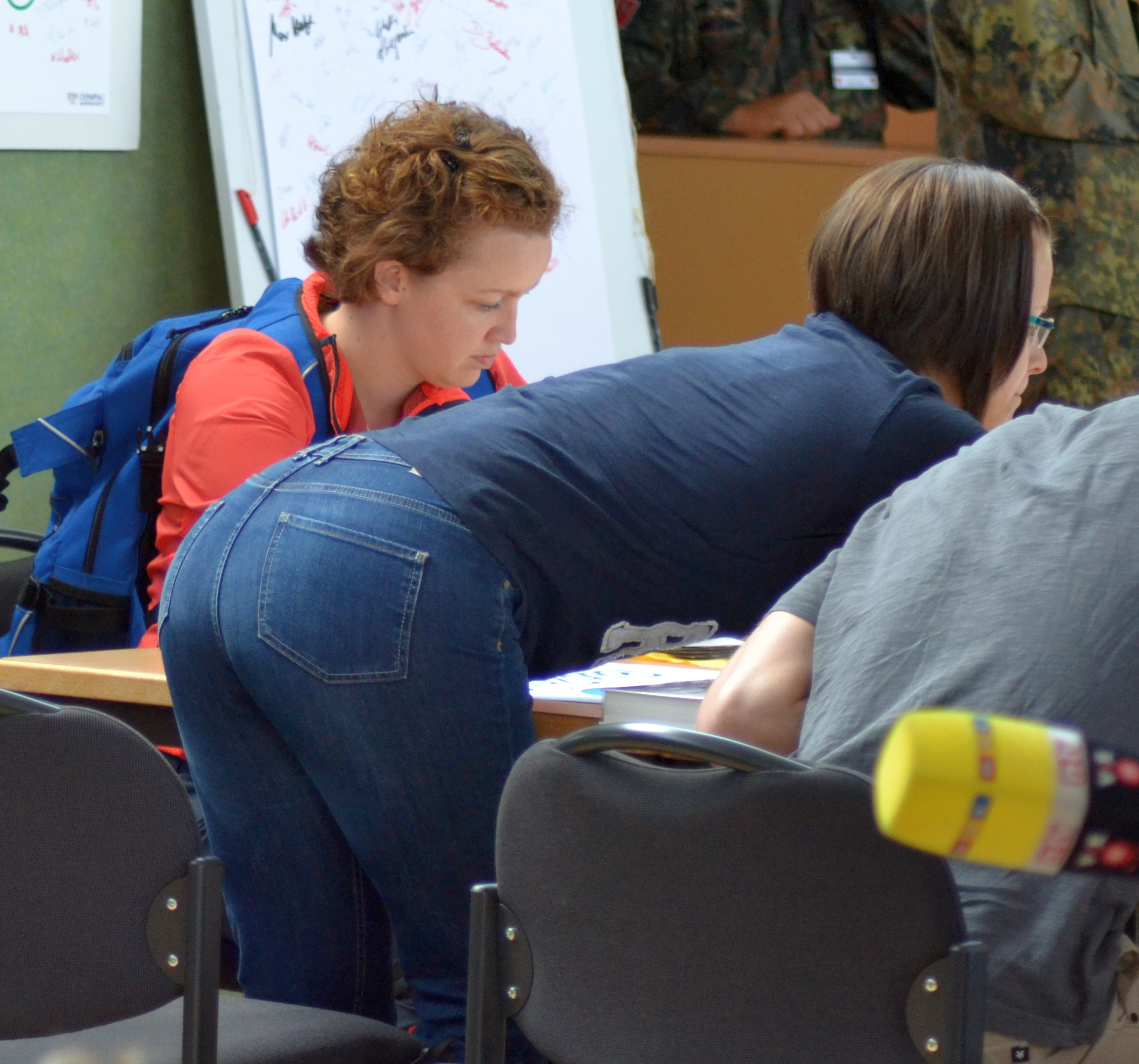 Media day of the clothing of the German Olympic team for Rio 2016 in the Emmich-Cambrai-Kaserne in Hanover. Pictured persons see Categories.